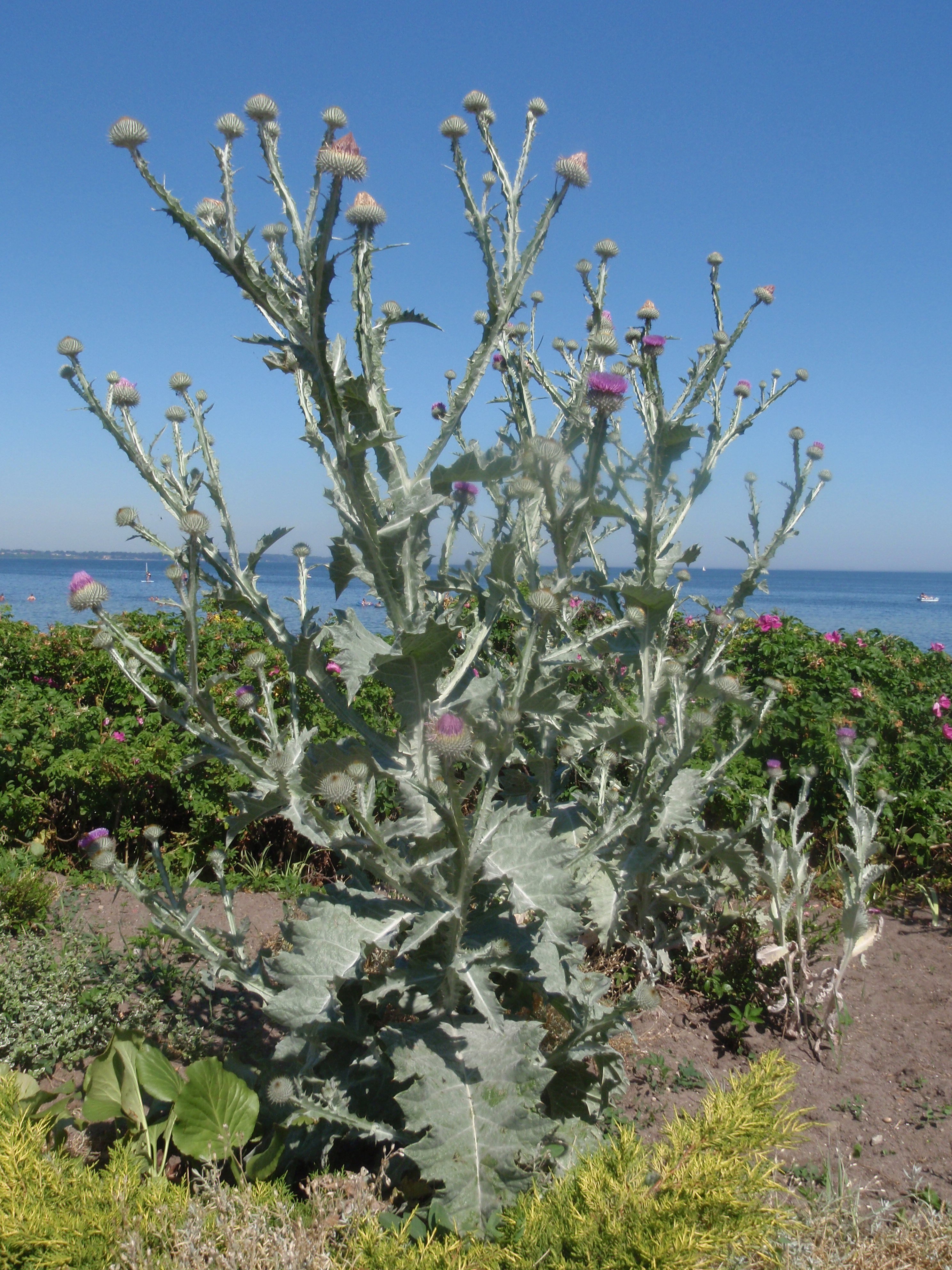 Onopordum acanthium